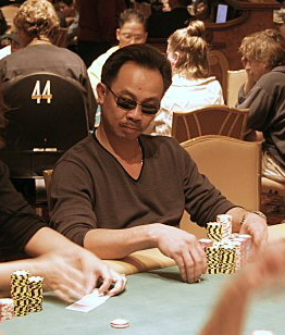 David Pham at the 2004 World Poker Tour 's Festa al Lago. (cropped)